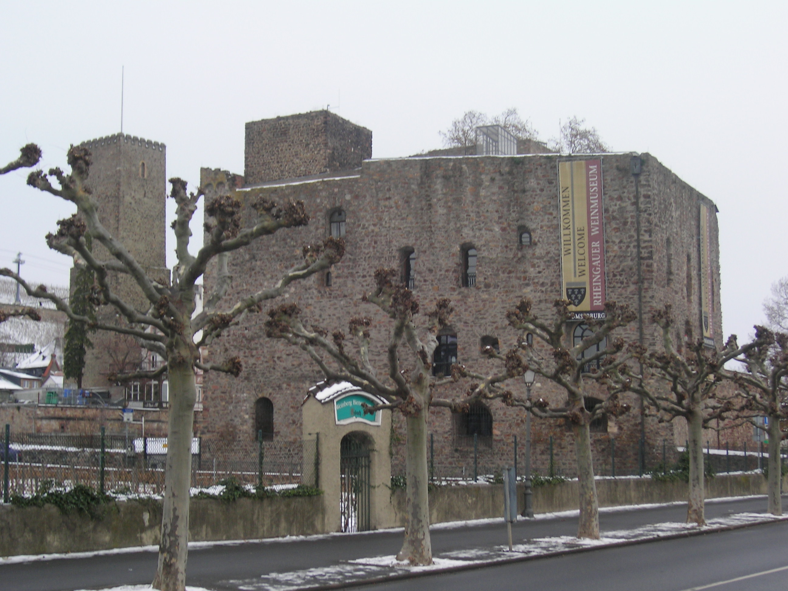 Brömserburg castle in Rüdesheim am Rhein (Germany)